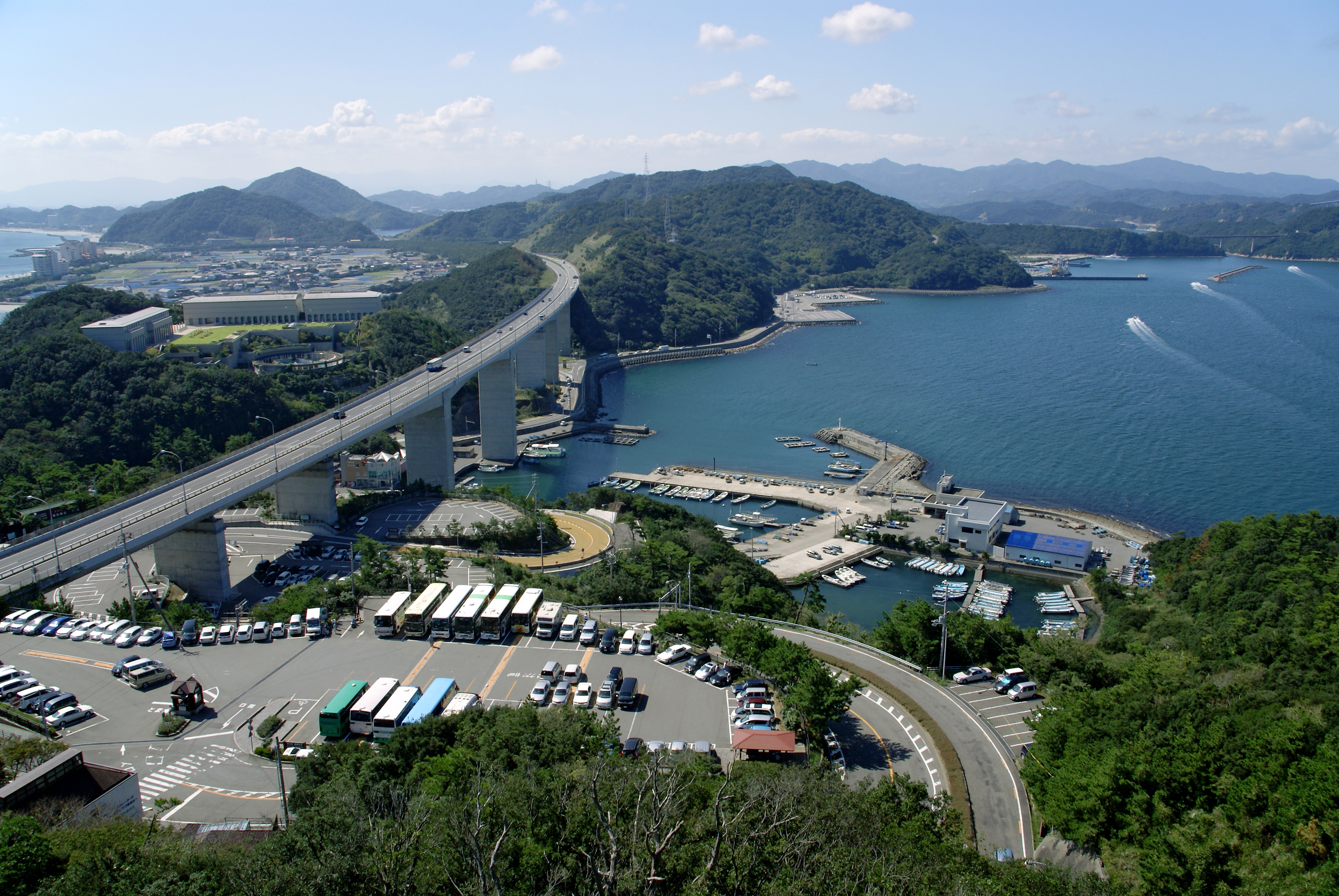 Kameura port in Naruto, Tokushima prefecture, Japan